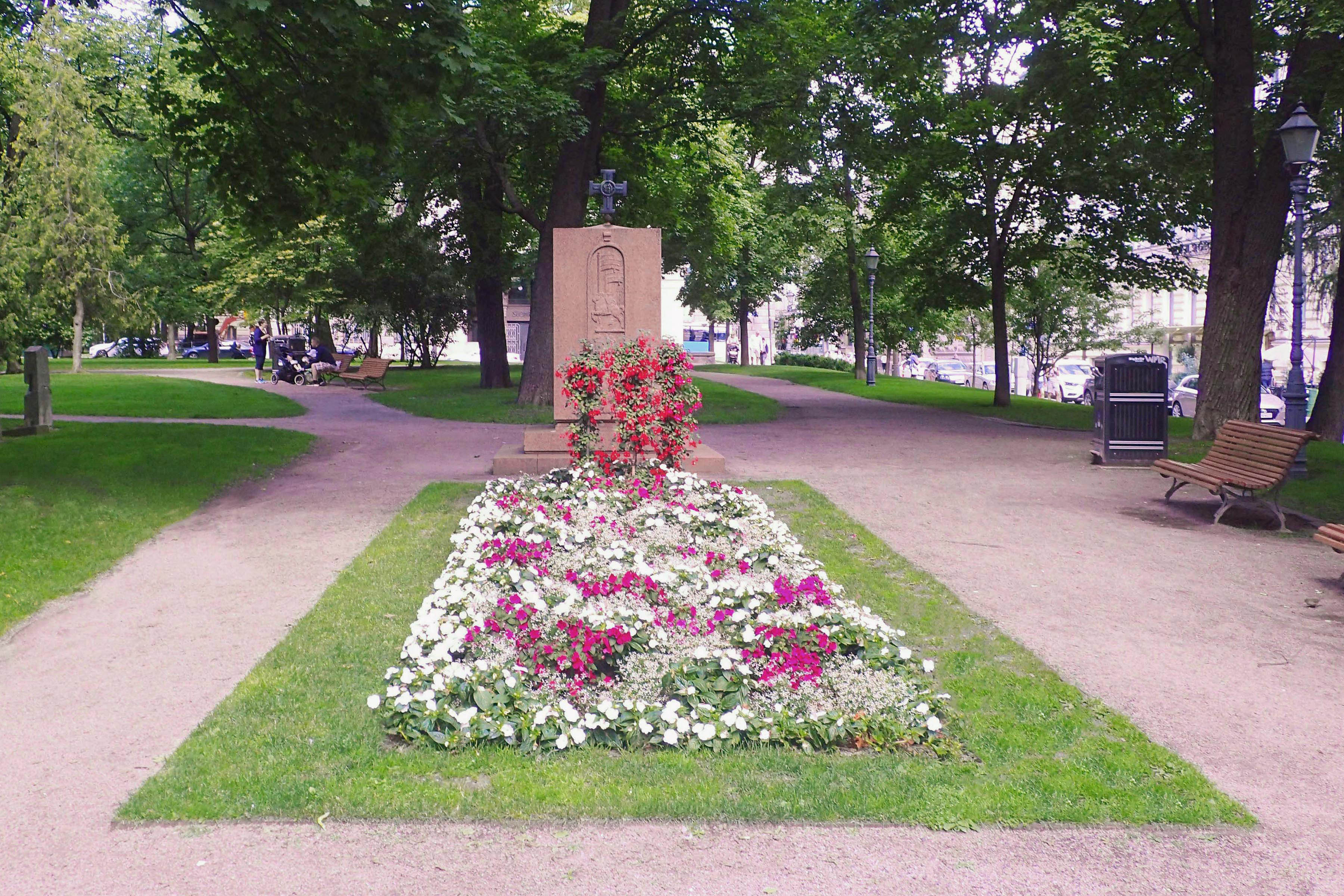 The tomb of the Finnish volunteers who fell during the Estonian War of Independence in 1919. Photographed in July 2019 after correcting the direction of the Cross of Liberty of the monument.